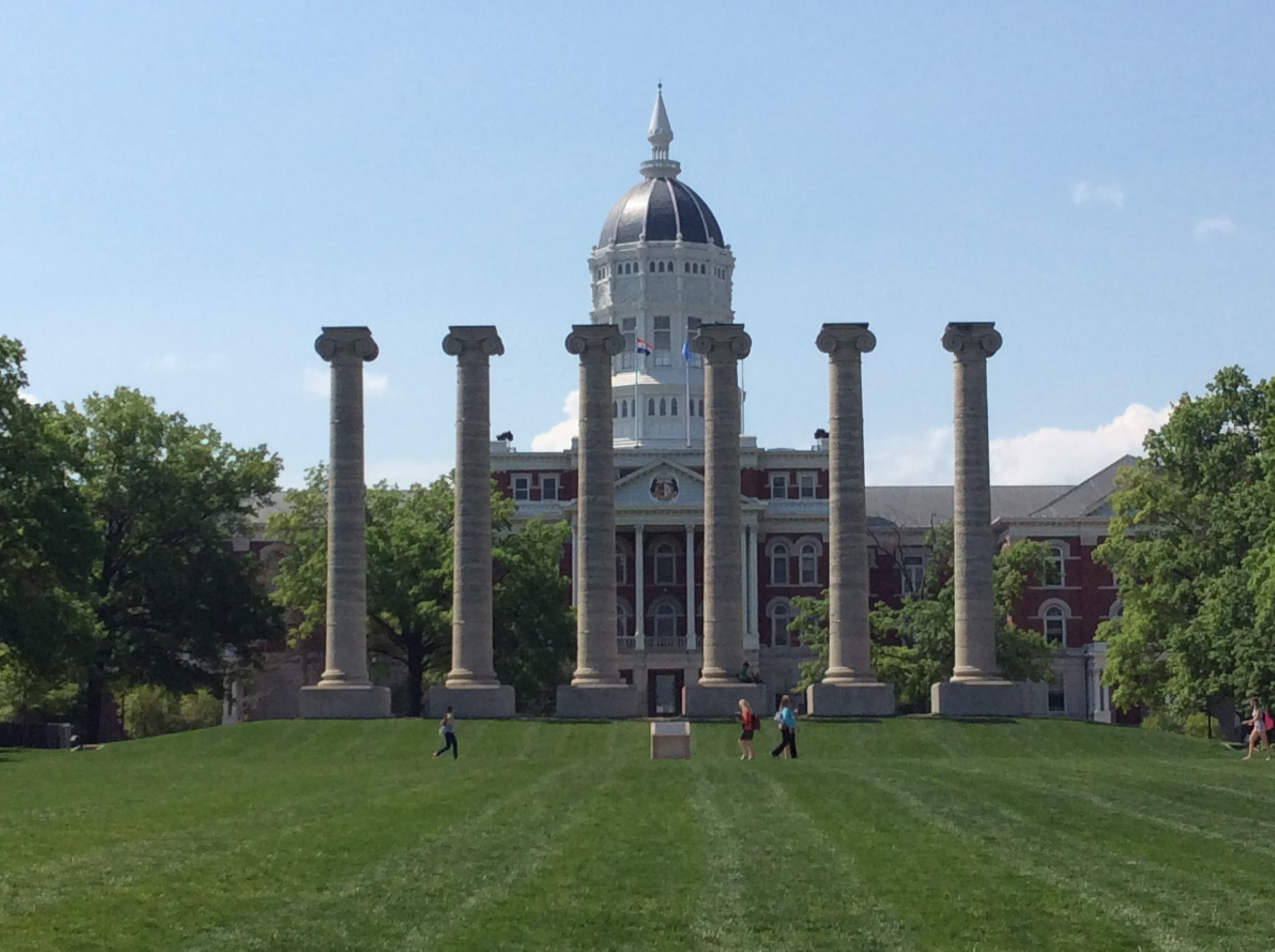 Jesse Hall and Columns in Columbia, Missouri